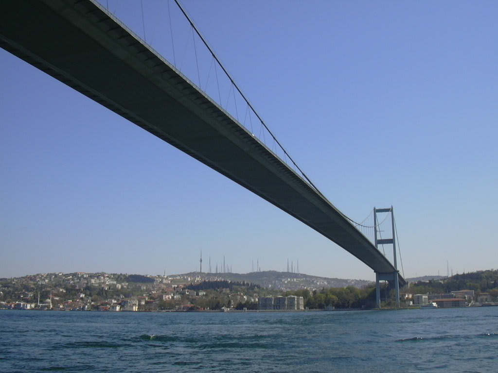 Bosphorus Bridge from a boat.